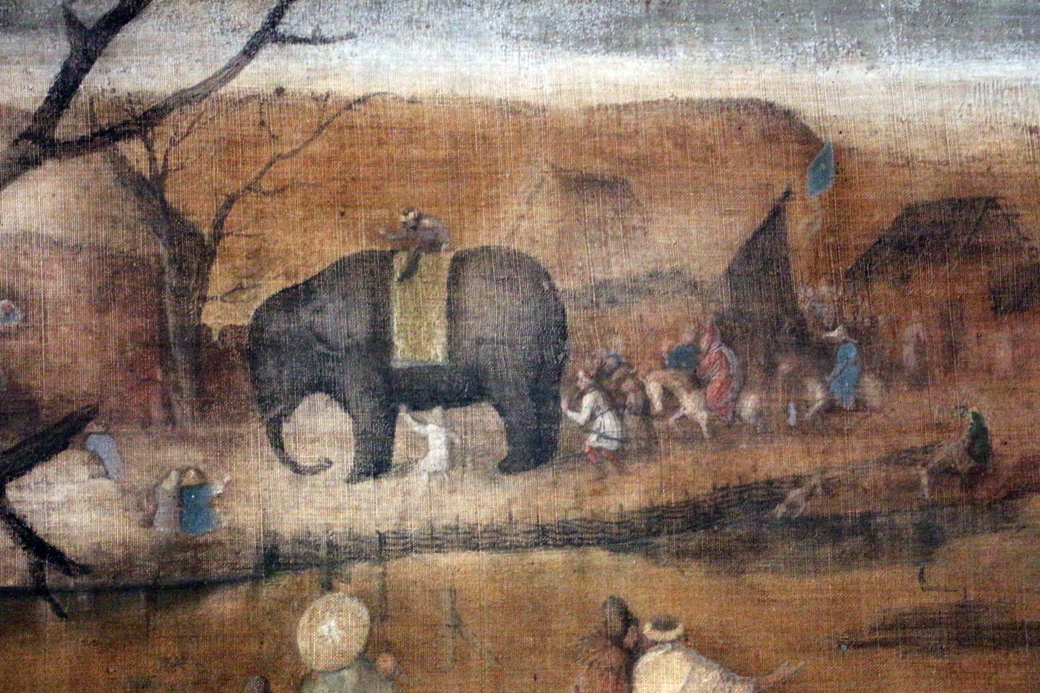 The Adoration of the Kings by Pieter Bruegel the Elder (Royal Museums of Fine Arts of Belgium)